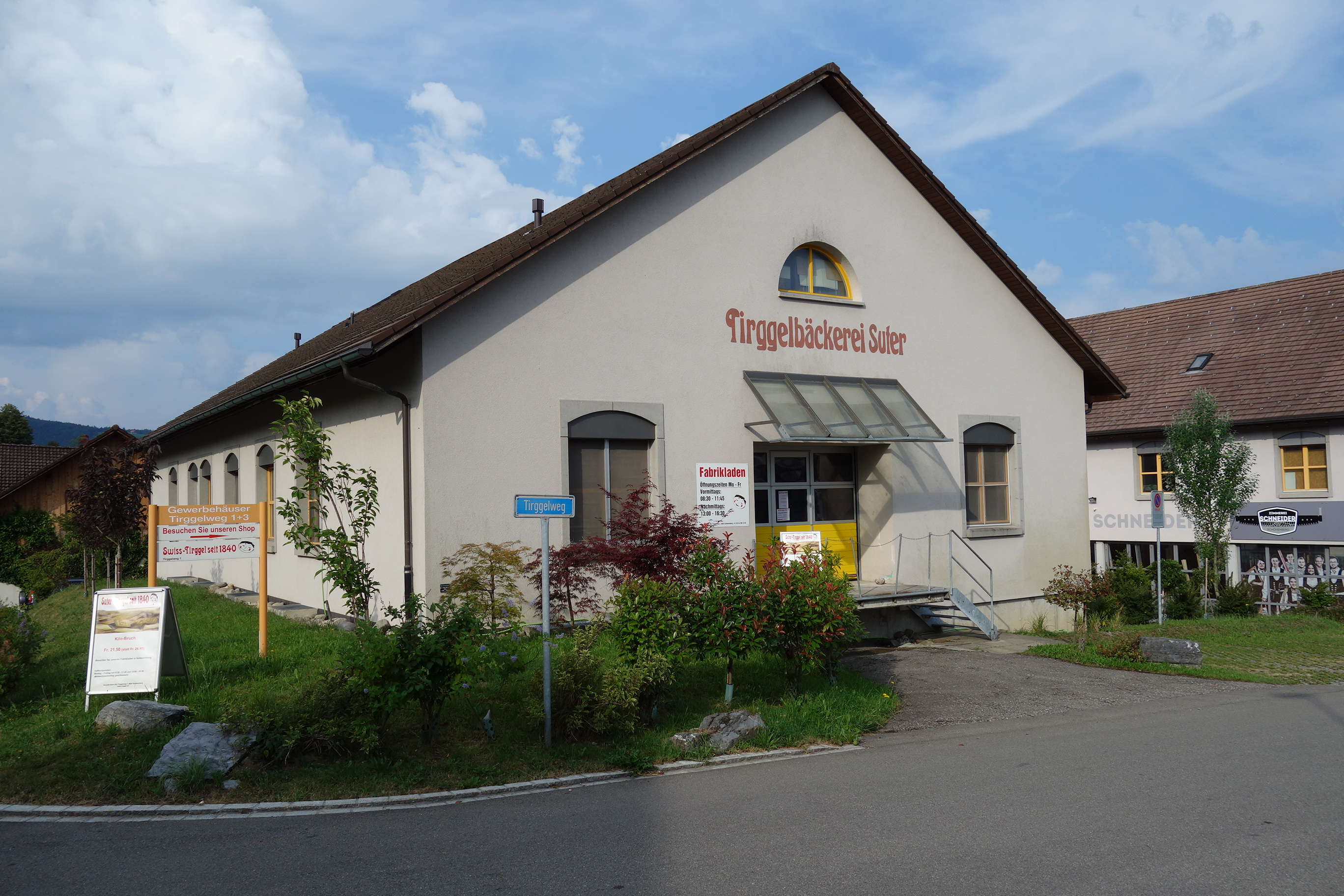 "Tirggel" bakery, Schönenberg ZH, Switzerland